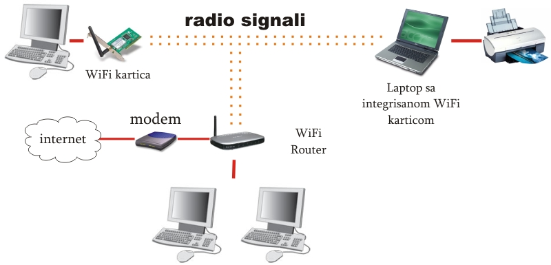 Wifi network